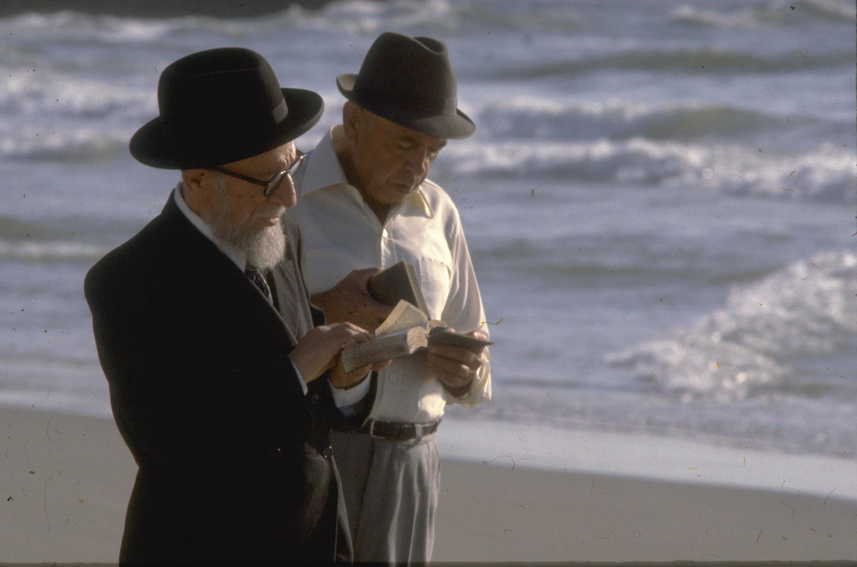 The Taslich prayer at a Tel Aviv beach during Rosh Hashanah. Photo by Sa'ar Ya'acov, GPO.